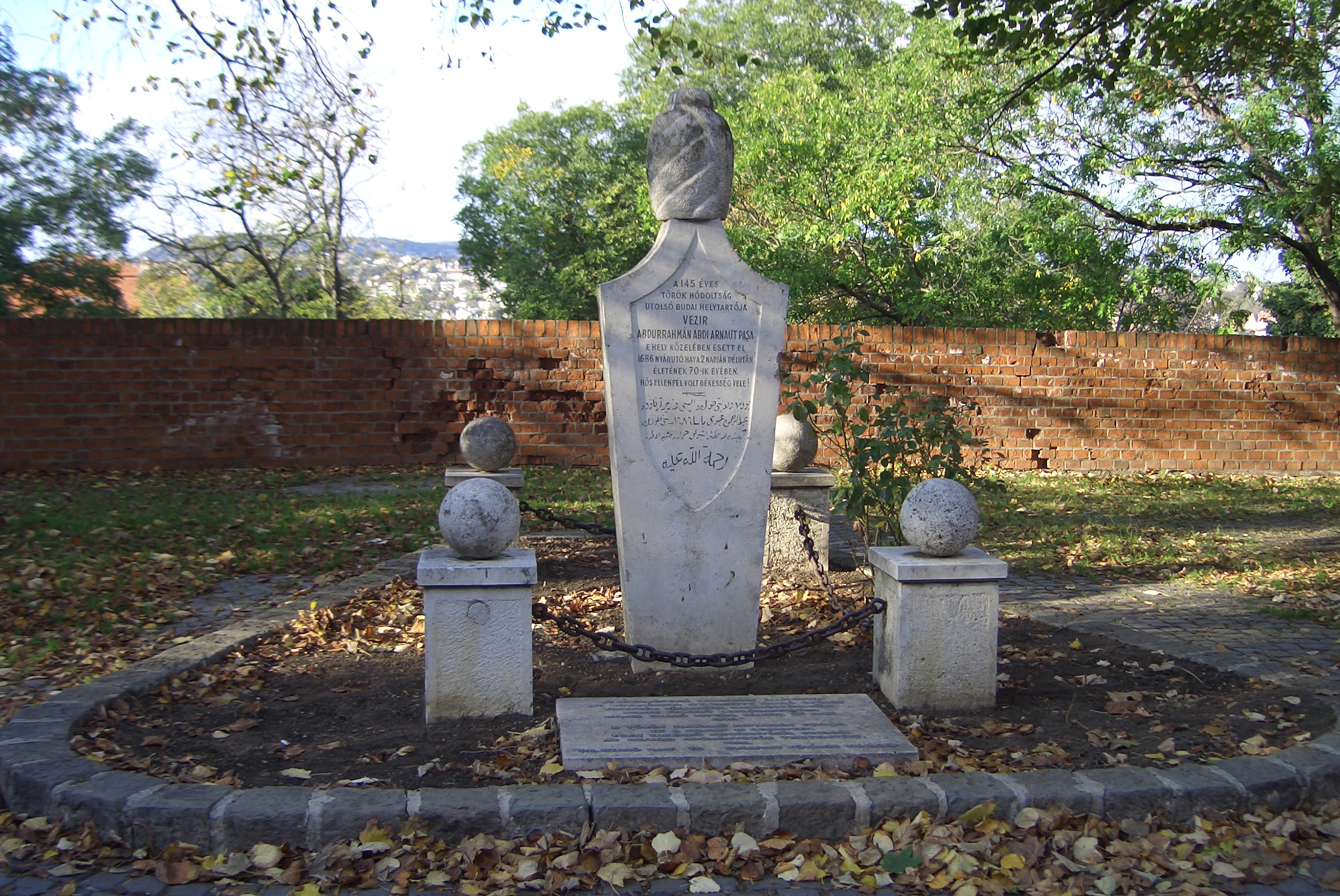 Memorial Monument for Abdurrahman Abdi Pasha the Albanian in the Buda Castle, North Bastion.